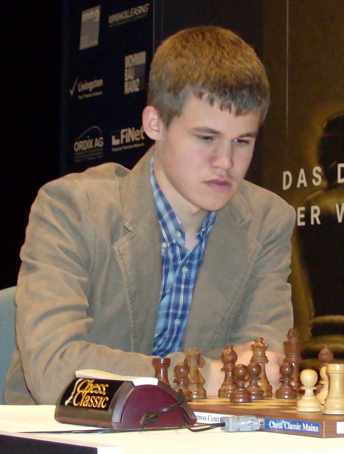 Magnus Carlsen at the 2008 Chess Classics